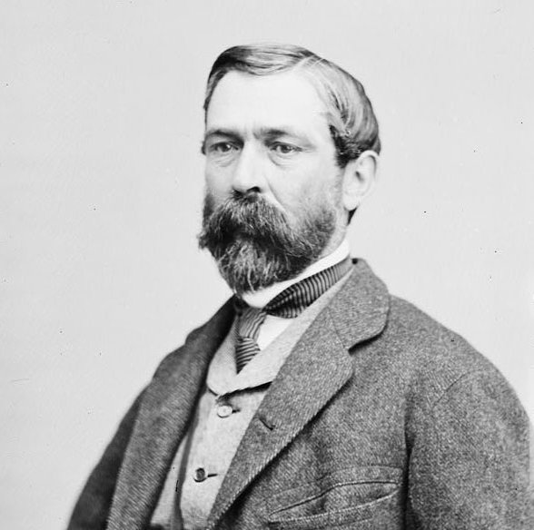 Richard Taylor, son of United States President Zachary Taylor and First Lady Margaret Taylor.